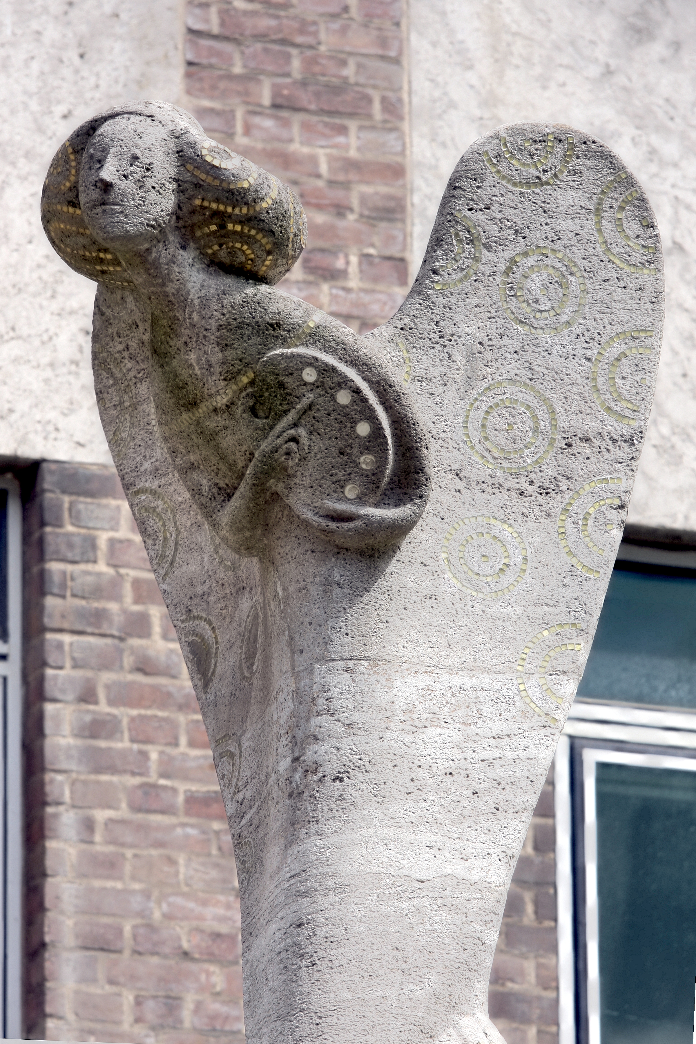 This is a photograph of an architectural monument.